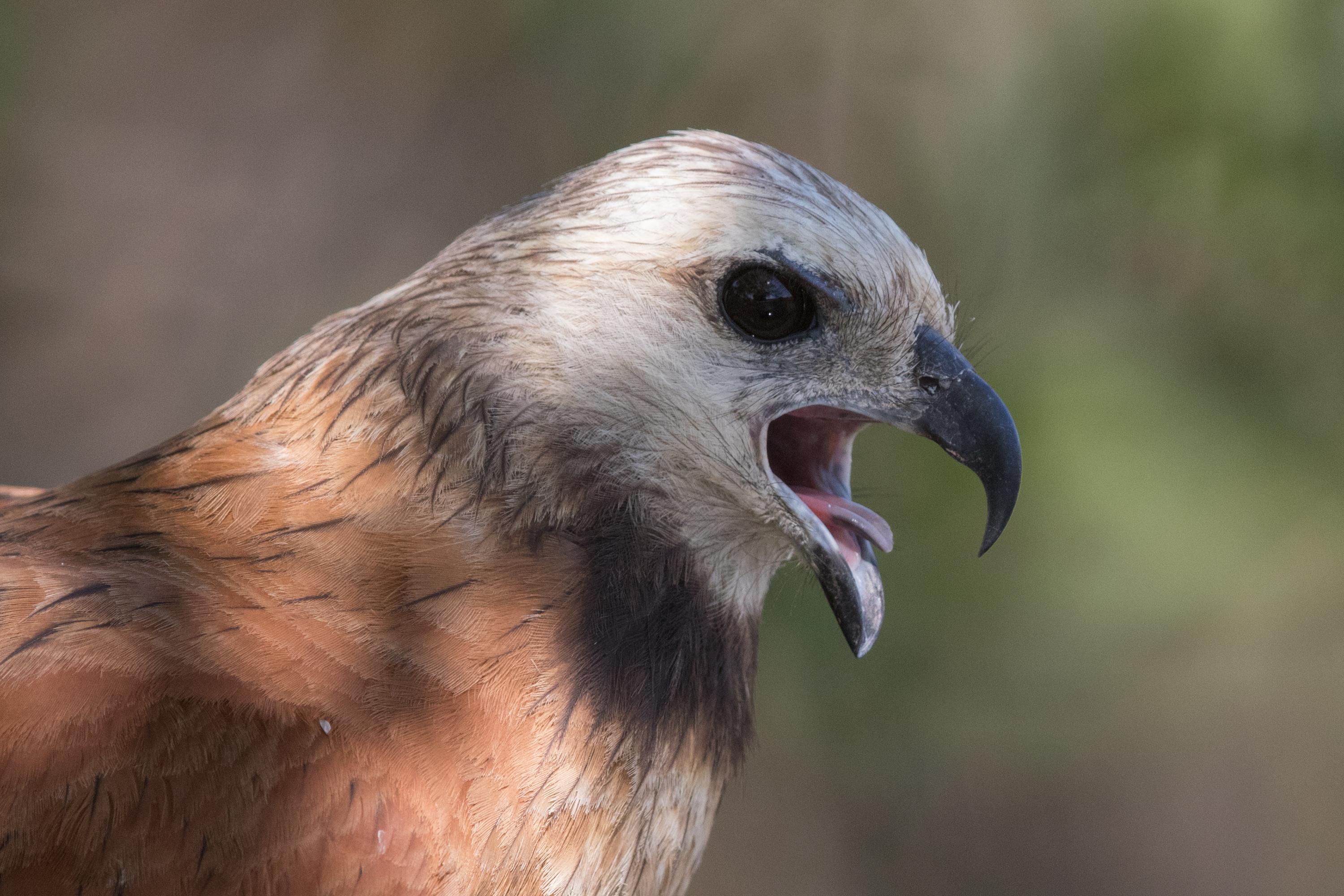 Black-collared Hawk